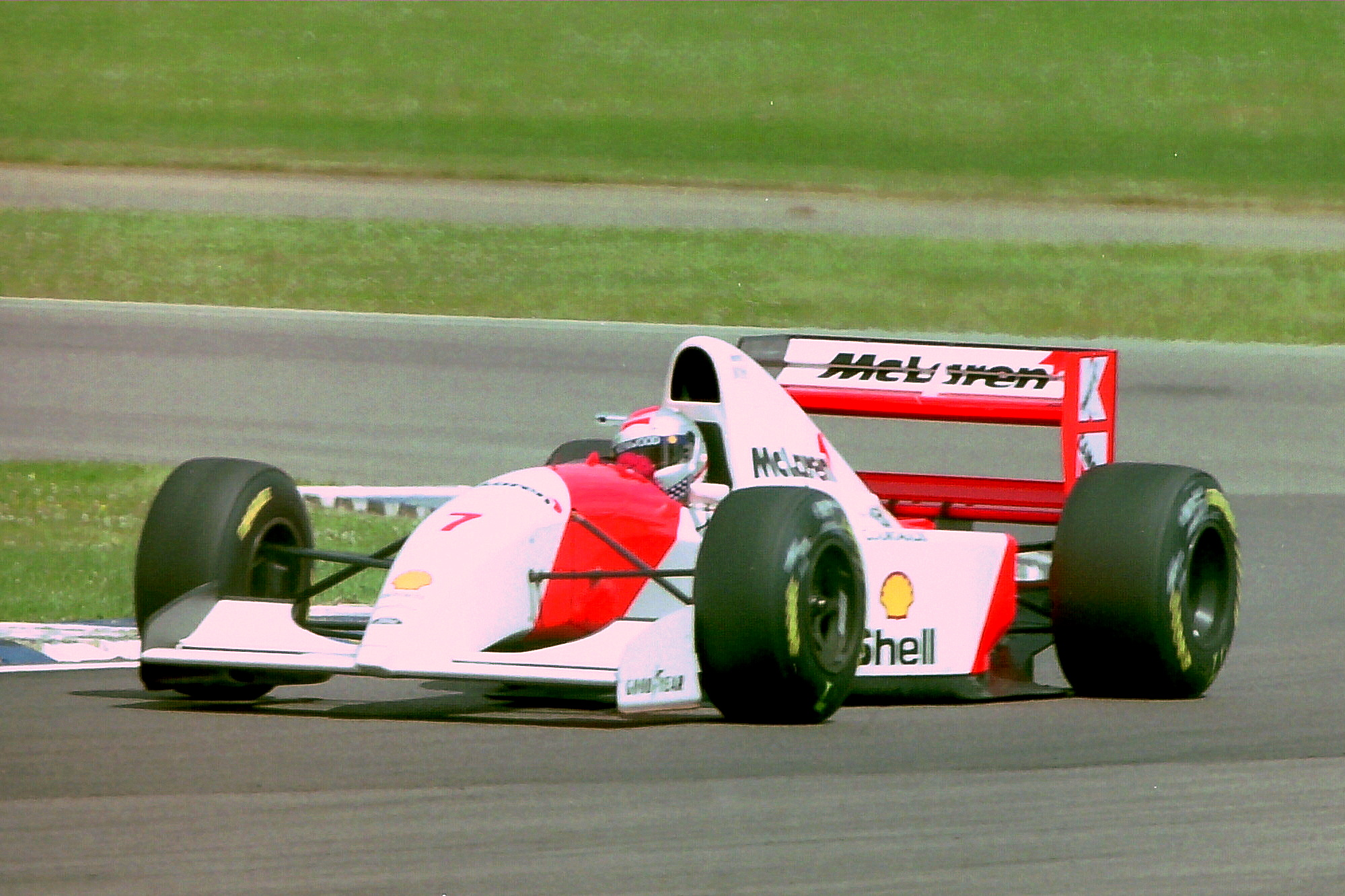 Michael Andretti - Mclaren MP4-8 during practice for the 1993 British Grand Prix